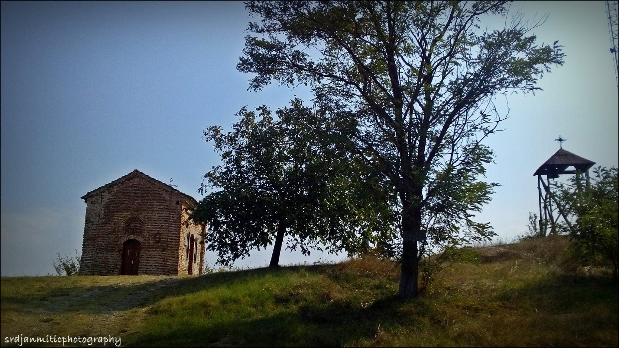 Church of St. John in Orljane, Serbia, Europe